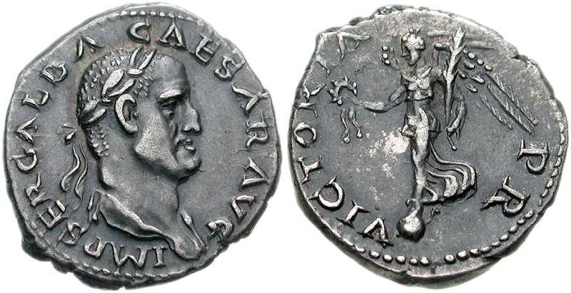 Galba. AD 68-69. AR Denarius (18mm, 3.51 g, 6h). Rome mint. IMP SER GALBA CAESAR AVG, laureate and draped bust right / VICTORIA P R, Victory standing left on globe, holding wreath in right hand, palm frond in left. RIC I 217; RSC 328; BMCRE 49; BN 97. Good VF, deeply toned. Well centered and boldly struck. Rare.